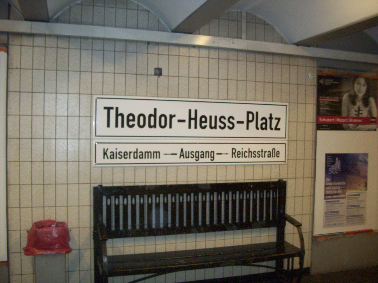 Theodor-Heuss-Platz underground station, line U2, Berlin, Germany